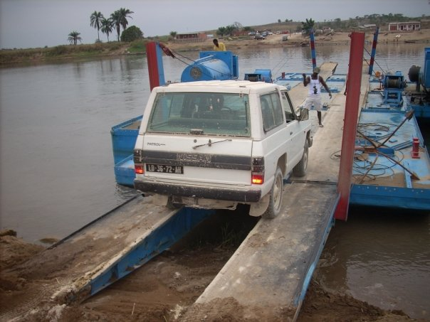 This is an image with the theme "Africa on the Move or Transport" from: Angola